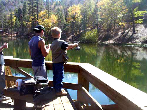 I took this picture of my son at 4 years old, casting a trout worm at Jenks Lake — in 2004.